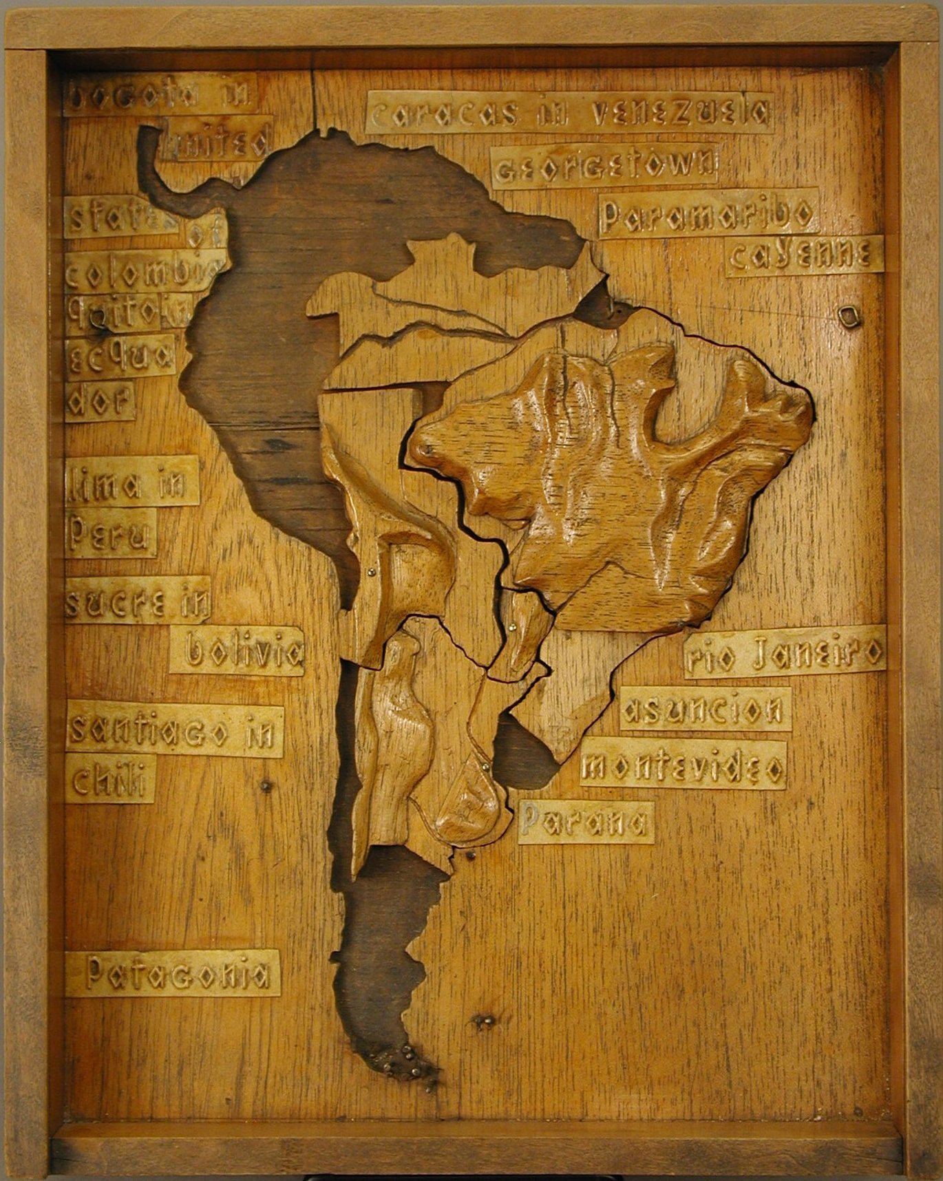 Early tactile map.